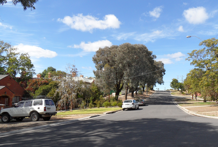 Family home of Michael Flanagan